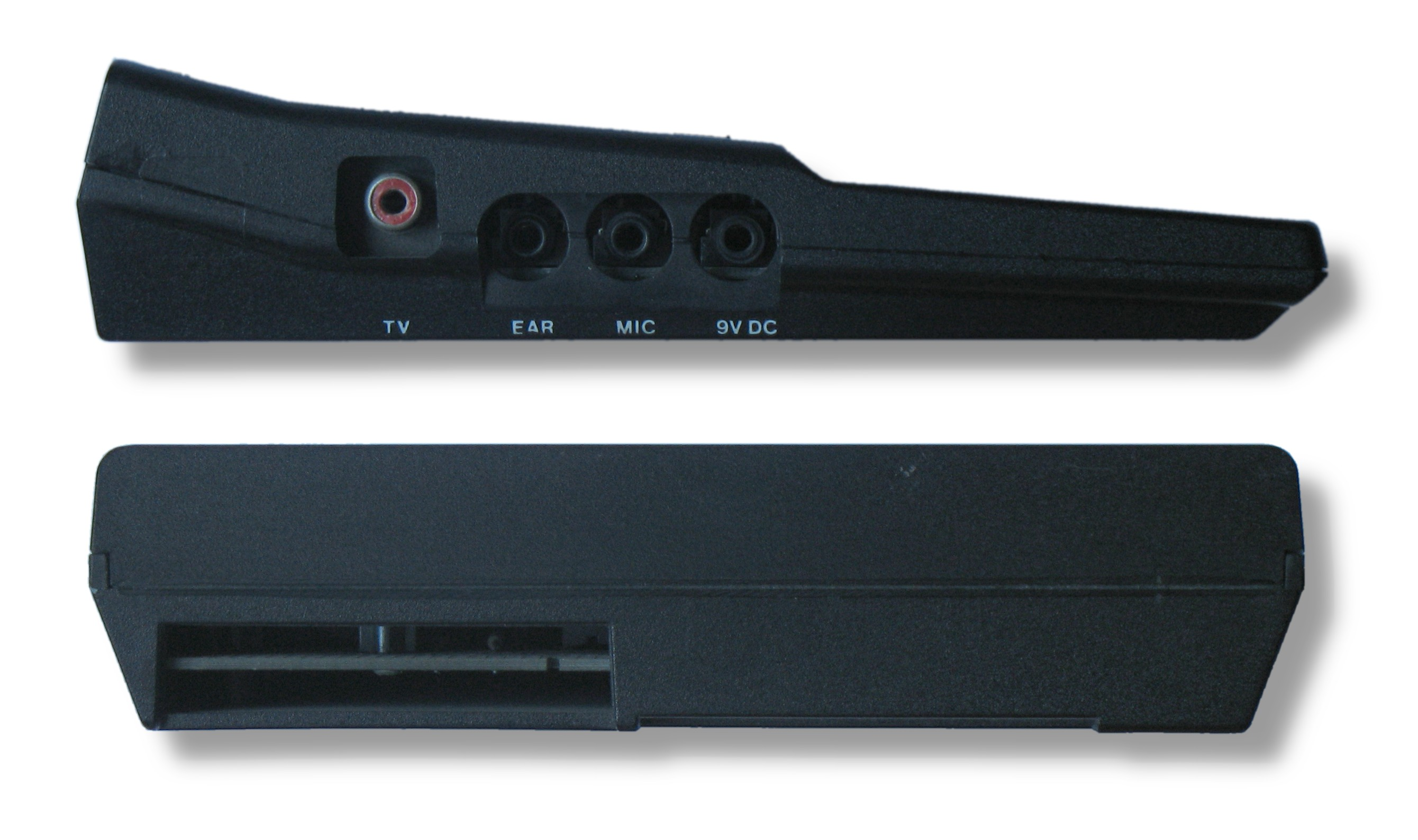 Connectors of Sinclair ZX81. Top, from left to right: TV connector (TV), cassette recorder (EAR & MIC), power (9V). Bottom: Expansion card slot.